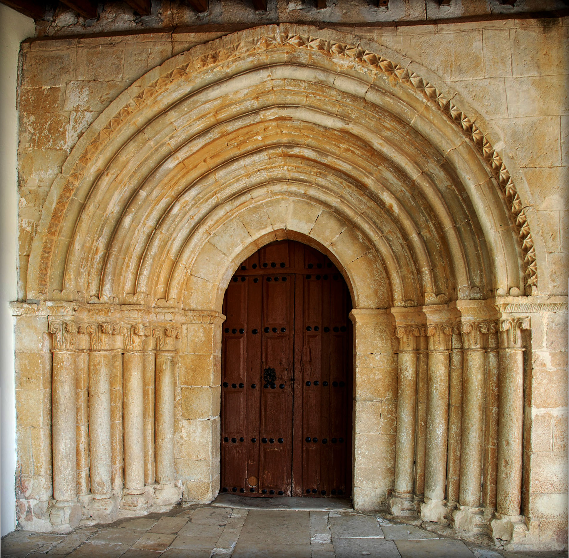 Church of Santa Lucía, Collazos de Boedo (Palencia, Castile and León).